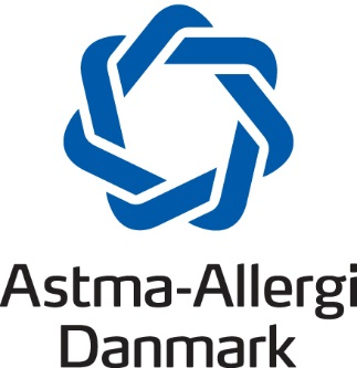 The Asthma- Allergy label